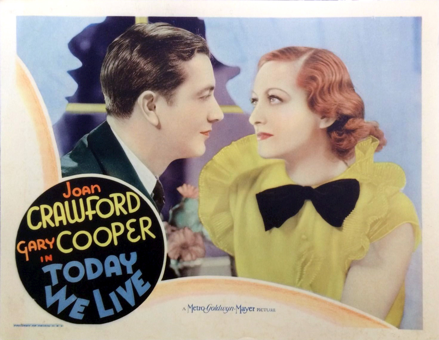 Lobby card for the 1933 film Today We Live. Pictured are Robert Young and Joan Crawford.